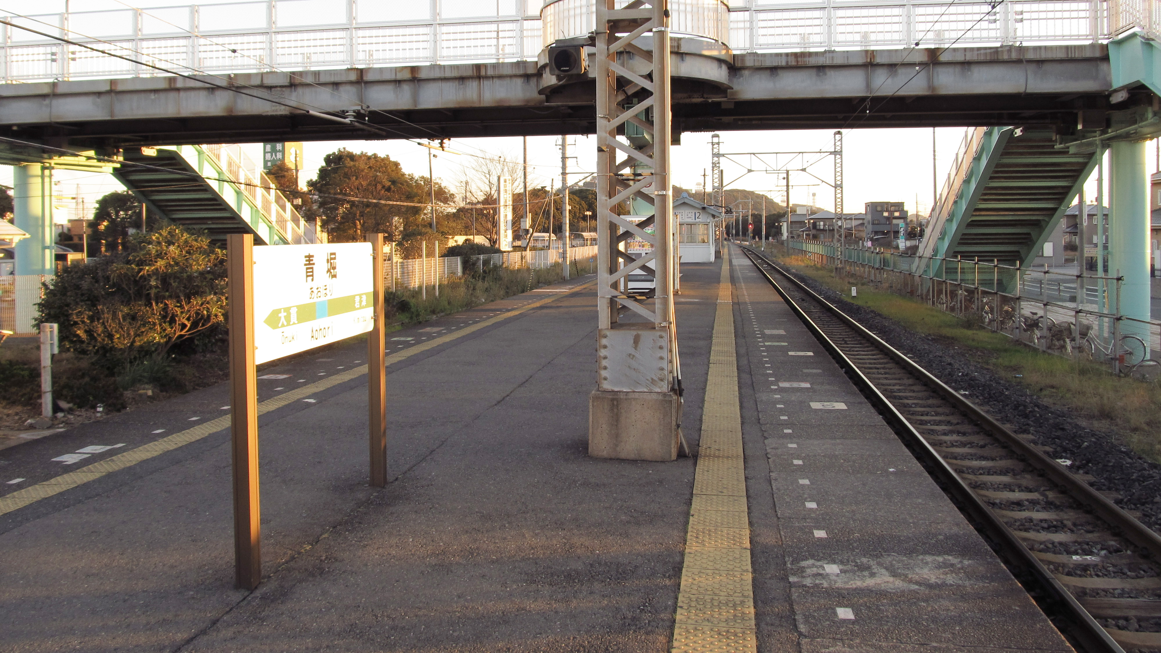 The platform at Aohori Station on the Uchibō Line in Futtsu city, Chiba prefecture, Japan